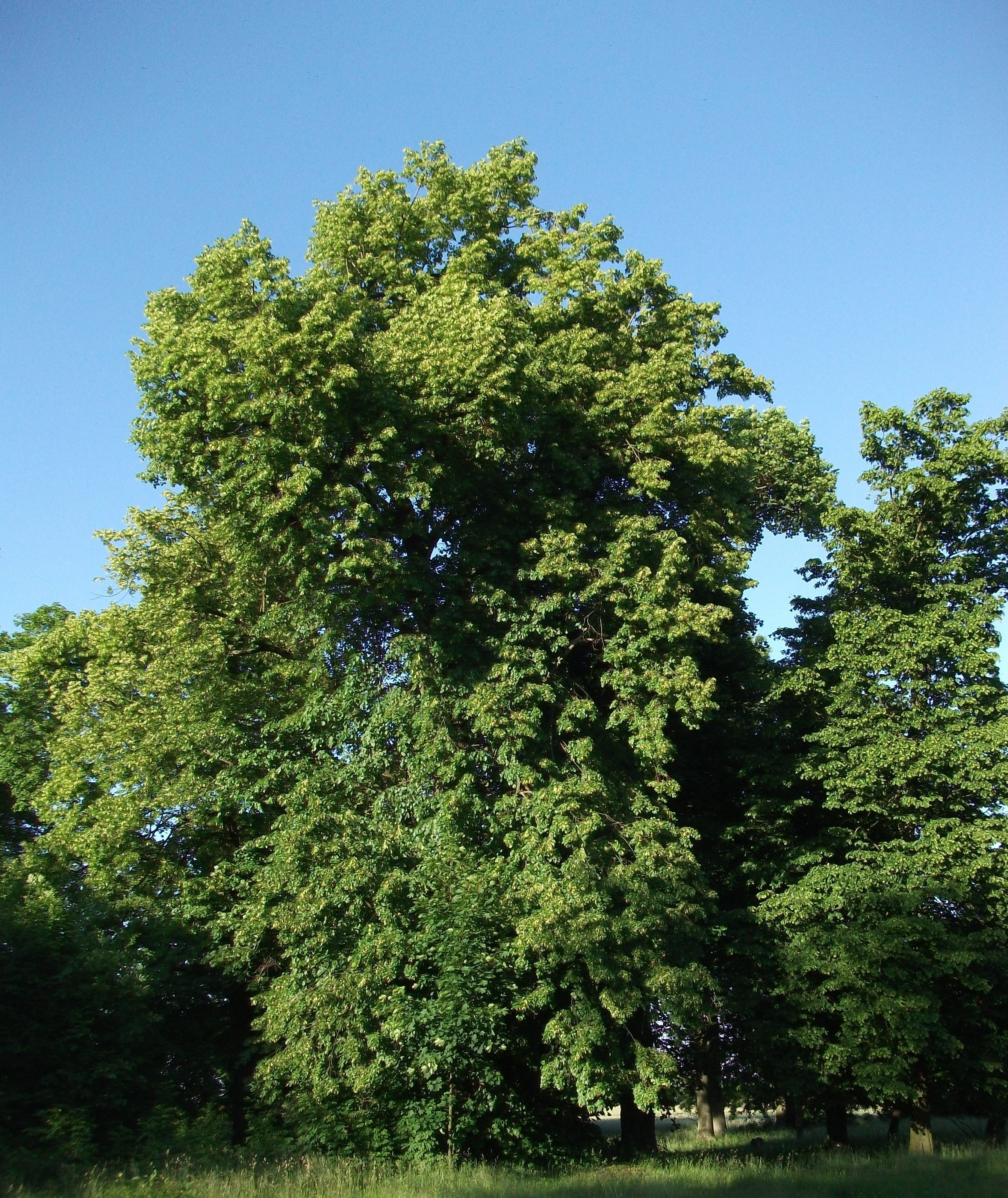 Skotniki (near Piotrków Trybunalski), park from 16th and 17th century